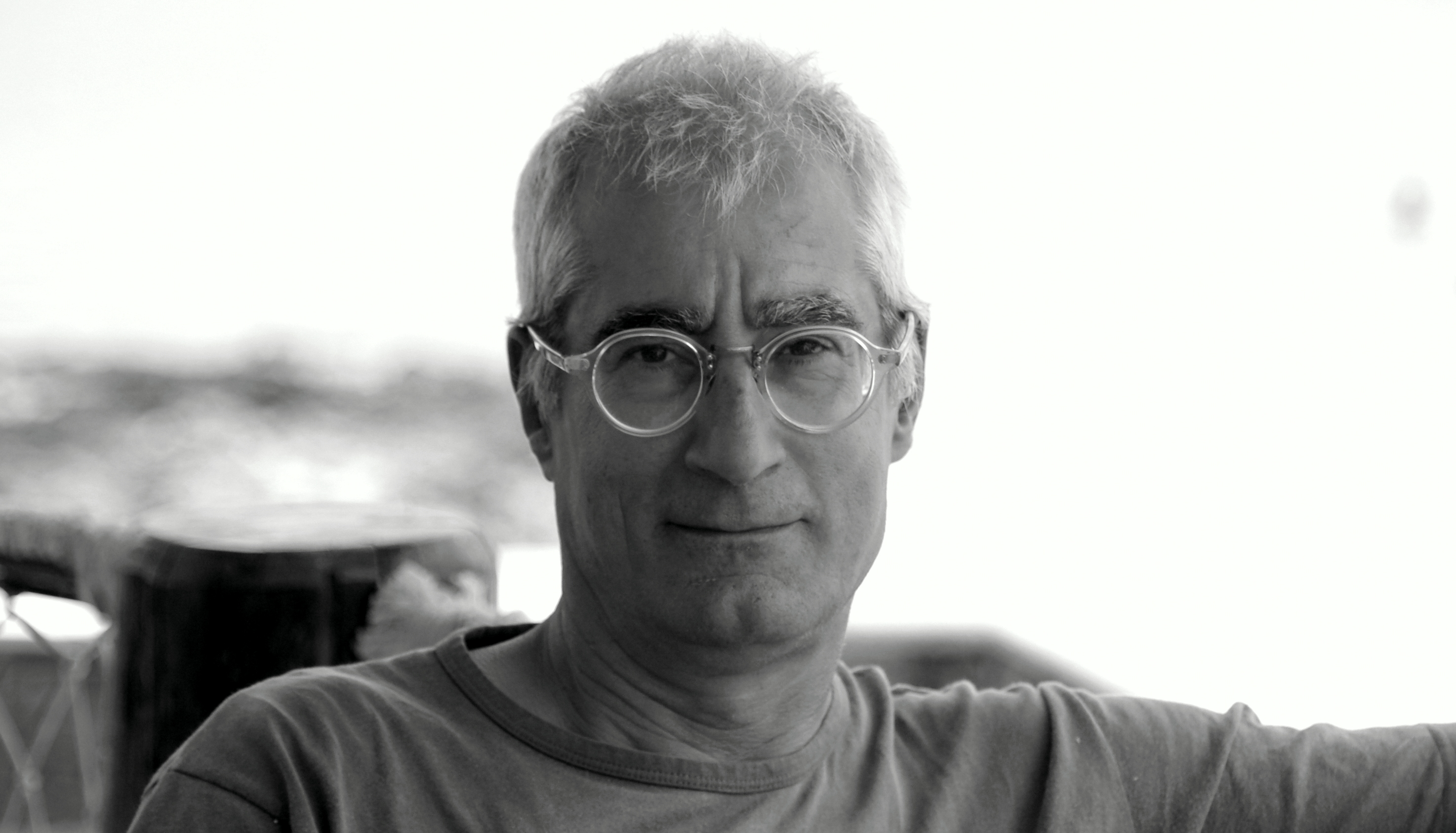 David Cirici